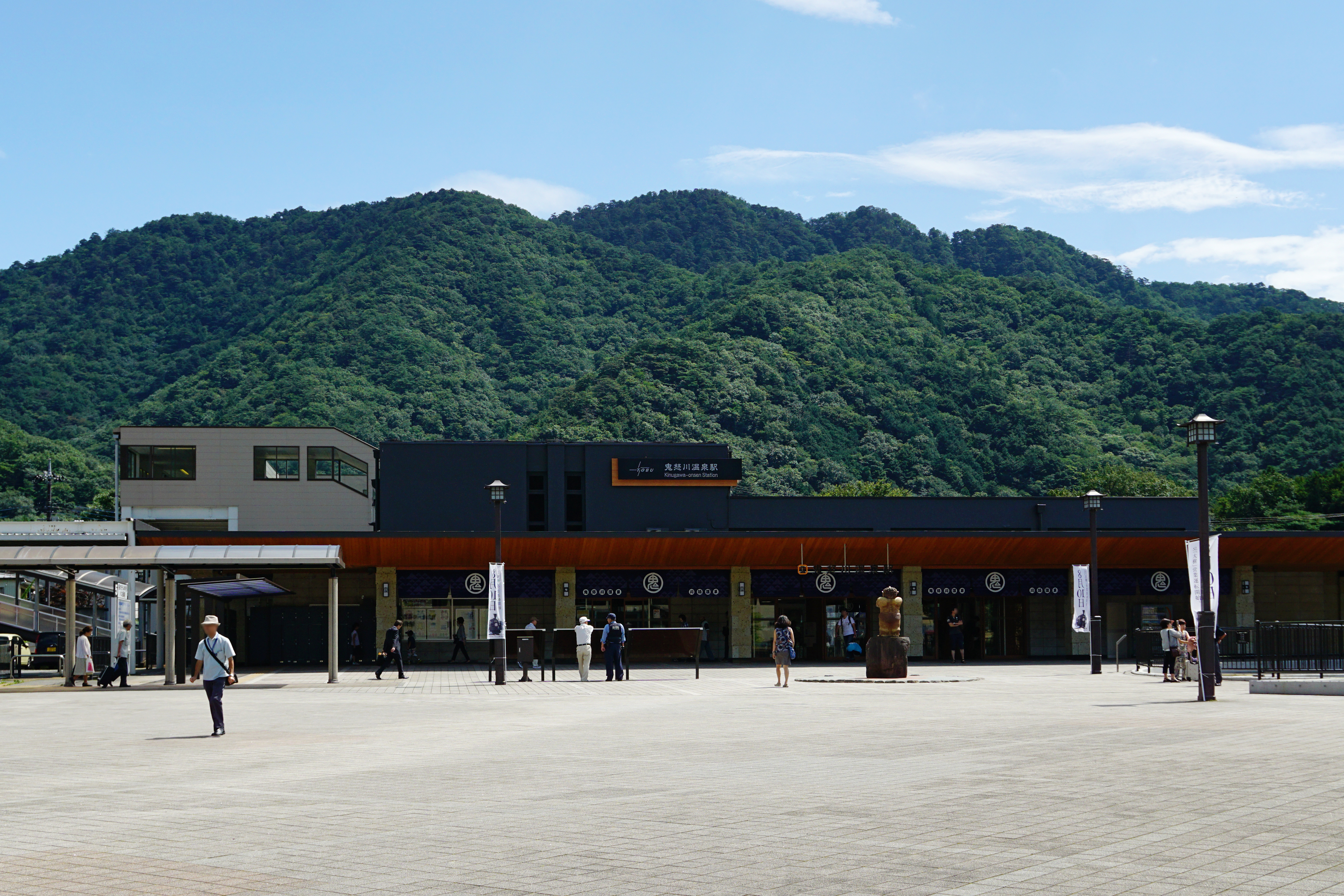 Kinugawa-Onsen Station in Nikko, Tochigi prefecture, Japan